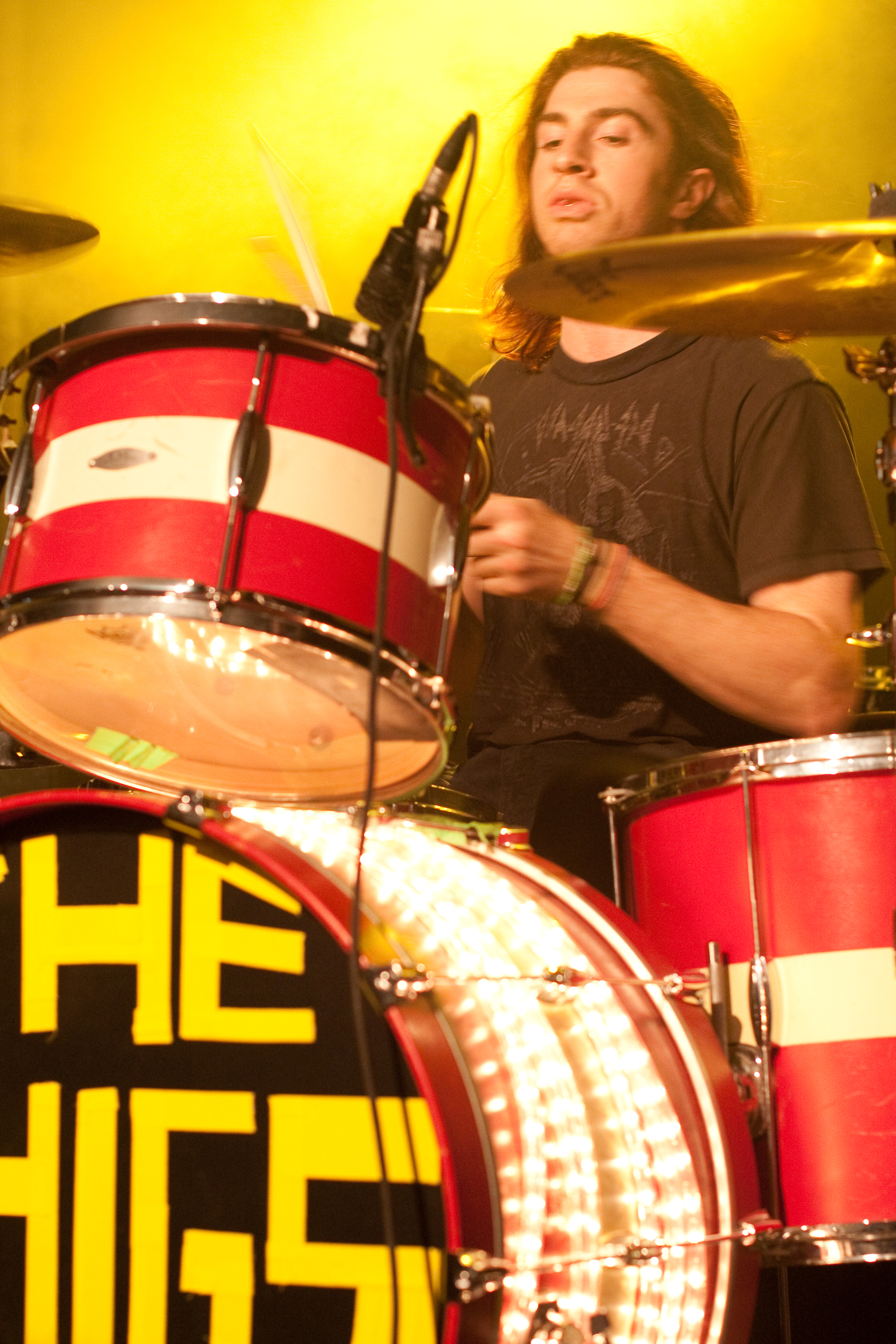 The Whigs April 29 2010 LiVE Lounge Ottawa, Canada Photography By: Scott Penner